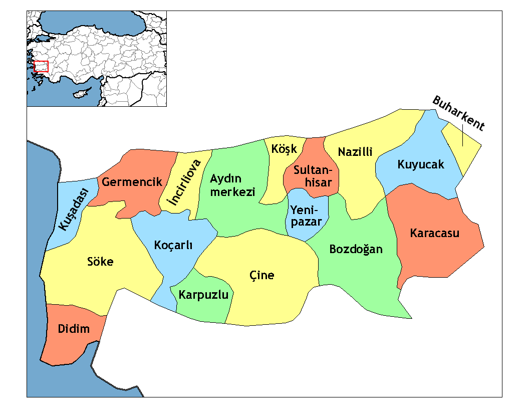 Map of the districts of Aydın province in Turkey. Created by Rarelibra 17:23, 1 December 2006 (UTC) for public domain use, using MapInfo Professional v8.5 and various mapping resources. Edited by One Homo Sapiens Corrected text where İ,Ş,ı,ğ,or ş occurs in name. Source: [statoids-com]. Increased font size and enhanced color differences among adjacent districts.